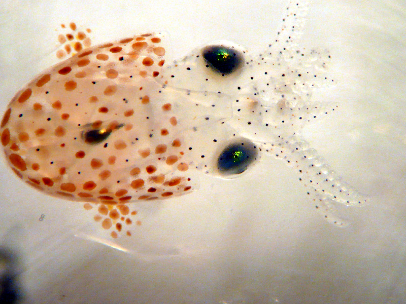 Baby Cuttlefish2